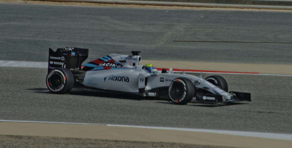 Felipe Massa at the 2015 Bahrain Grand Prix